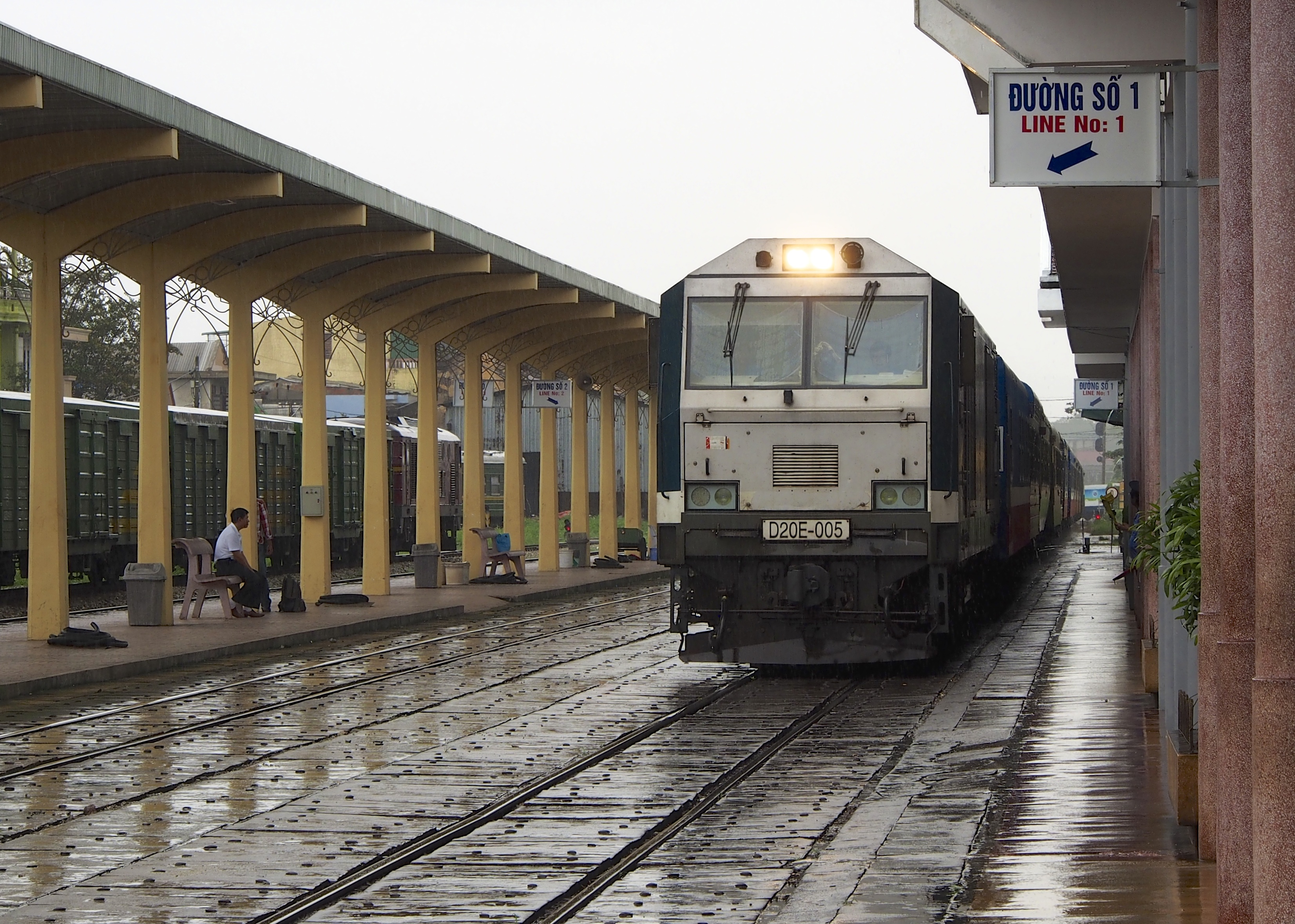 Waiting on a late running, due to weather, Train SE1